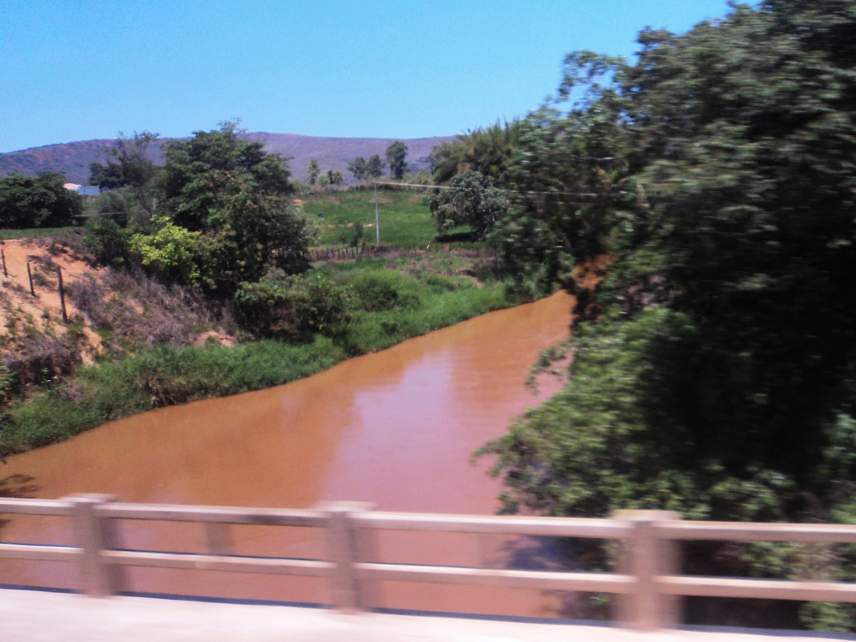 The Suaçui Pequeno River in Governador Valadares, Minas Gerais, Brazil.